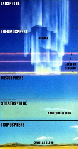 Diagram of Earth's atmosphere, adapted from NASA document.